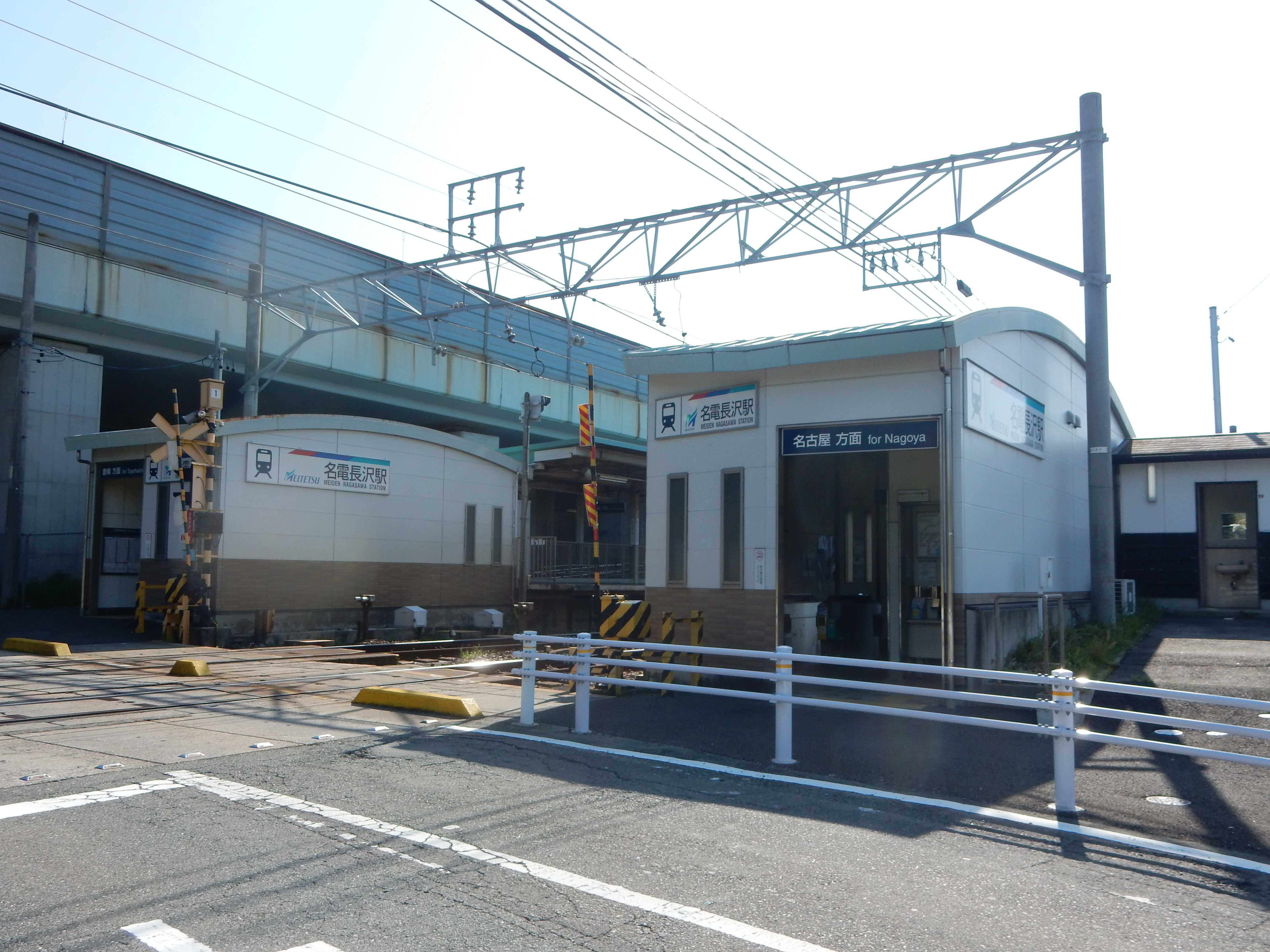 Meiden-Nagasawa Station (名電長沢駅), located at 36 Otowa, Nagasawacho, Toyokawa, Aichi prefecture, Japan